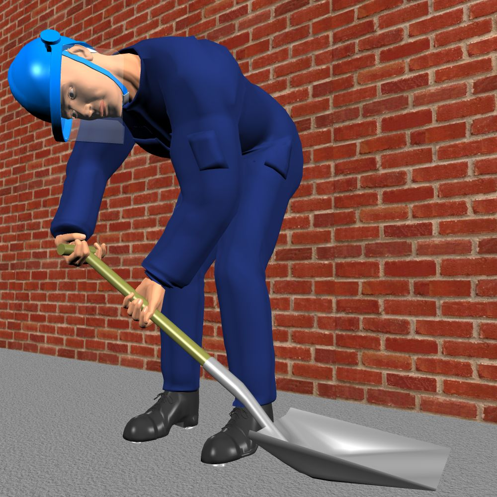 Workman shoveling (CGI image)